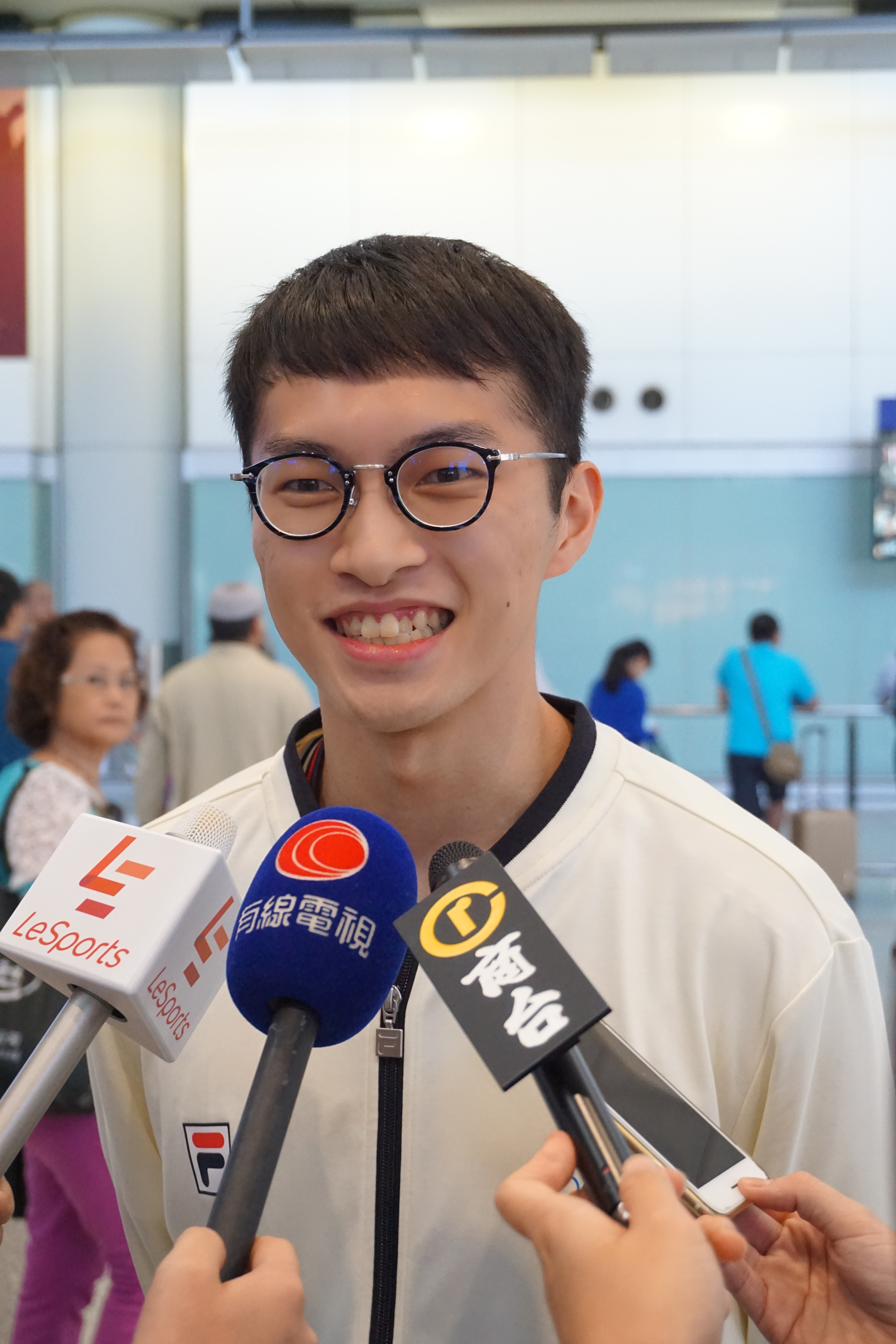 Angus Ng Ka-long, Hong Kong.